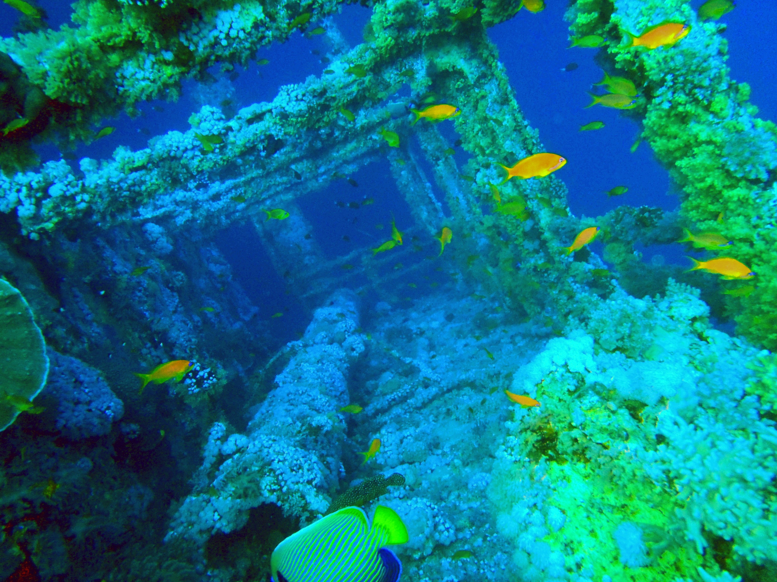 Wrack of the Numibia at Big Brother Island, Read Sea, EgyptSuperstructures in 40m depth.